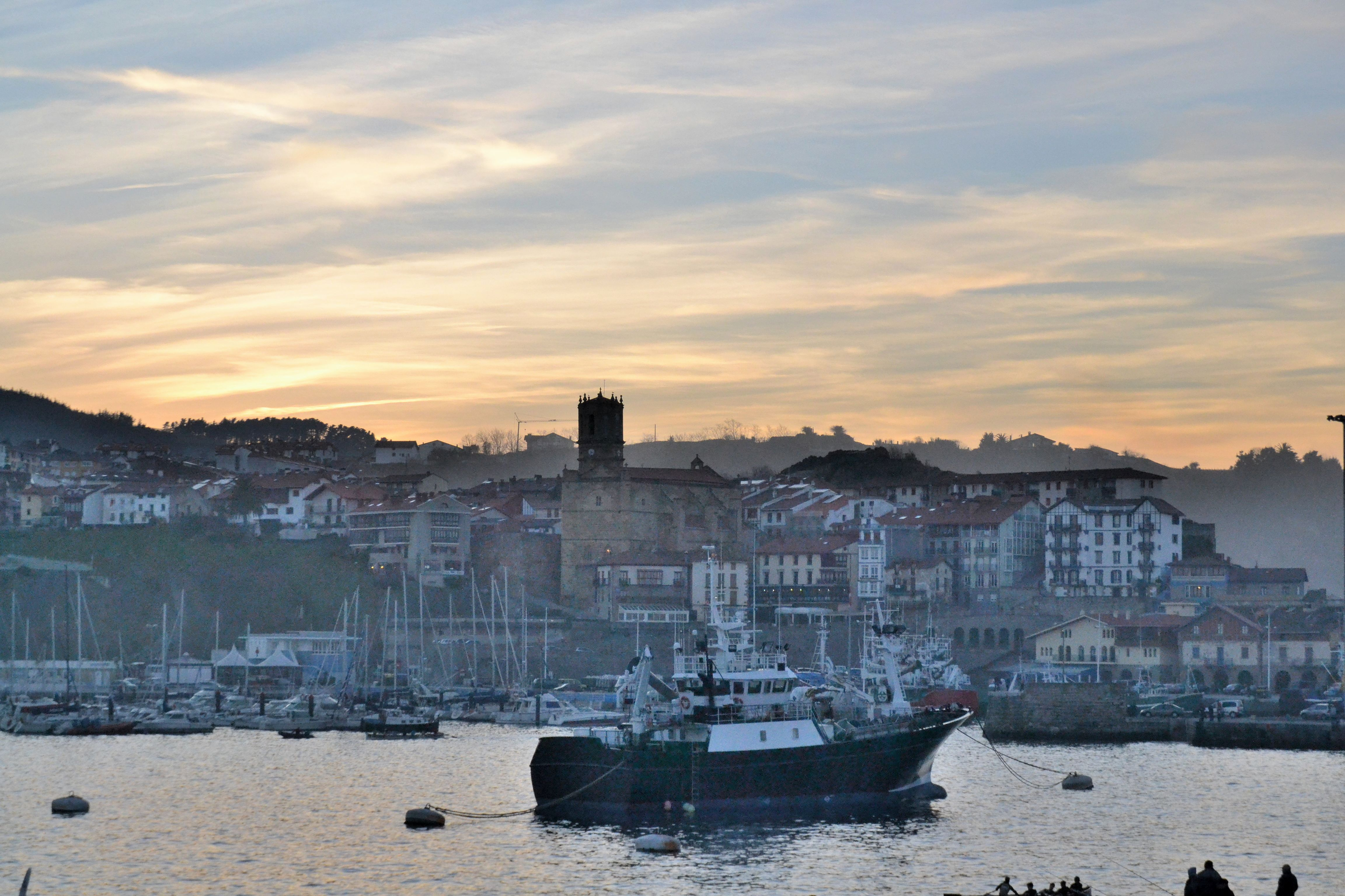 Port of Getaria. Gipuzkoa, Basque Country.